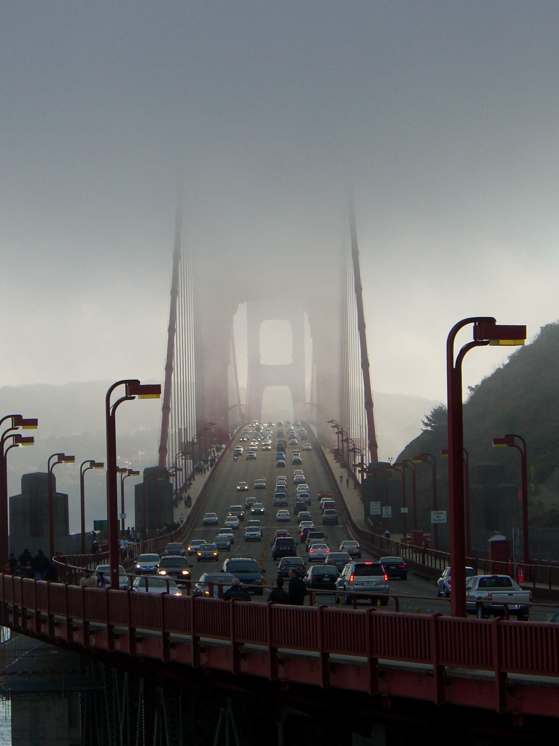 The Golden Gate Bridge in San Francisco, California.